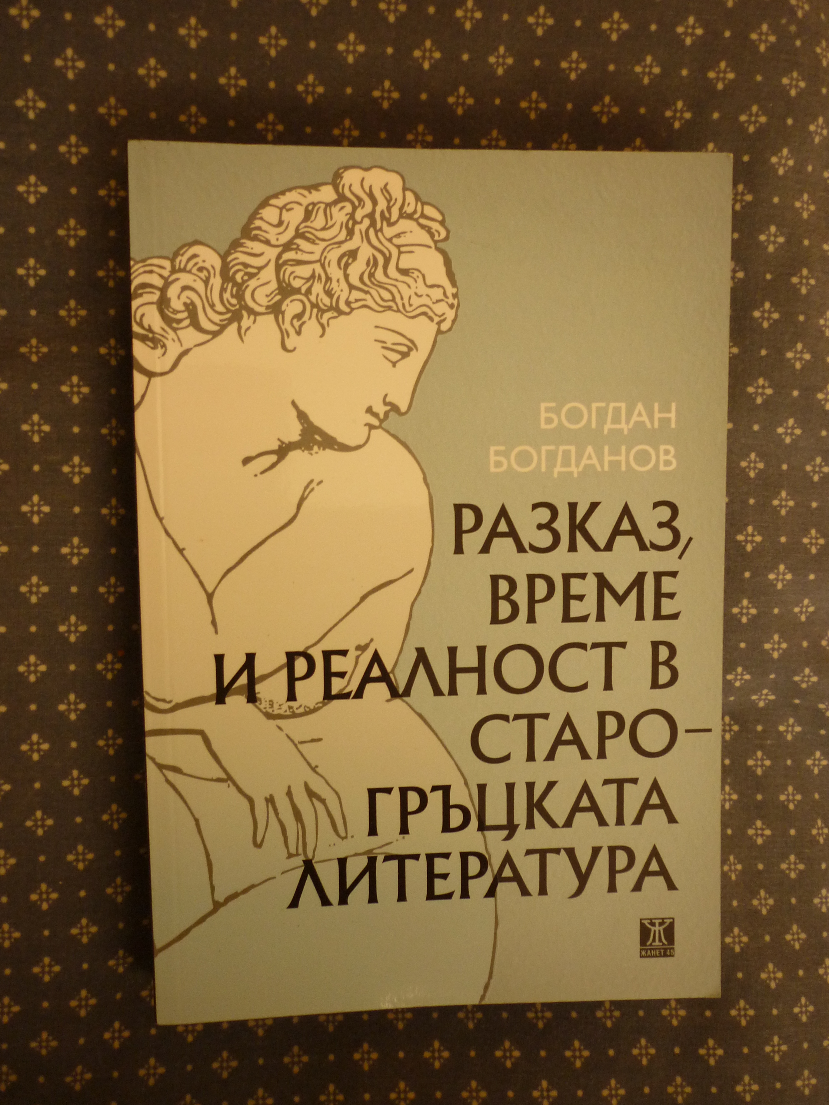 „Narration, Time and Reality in Old Greek Literature“, cover of the first Bulgarian edition, 2012